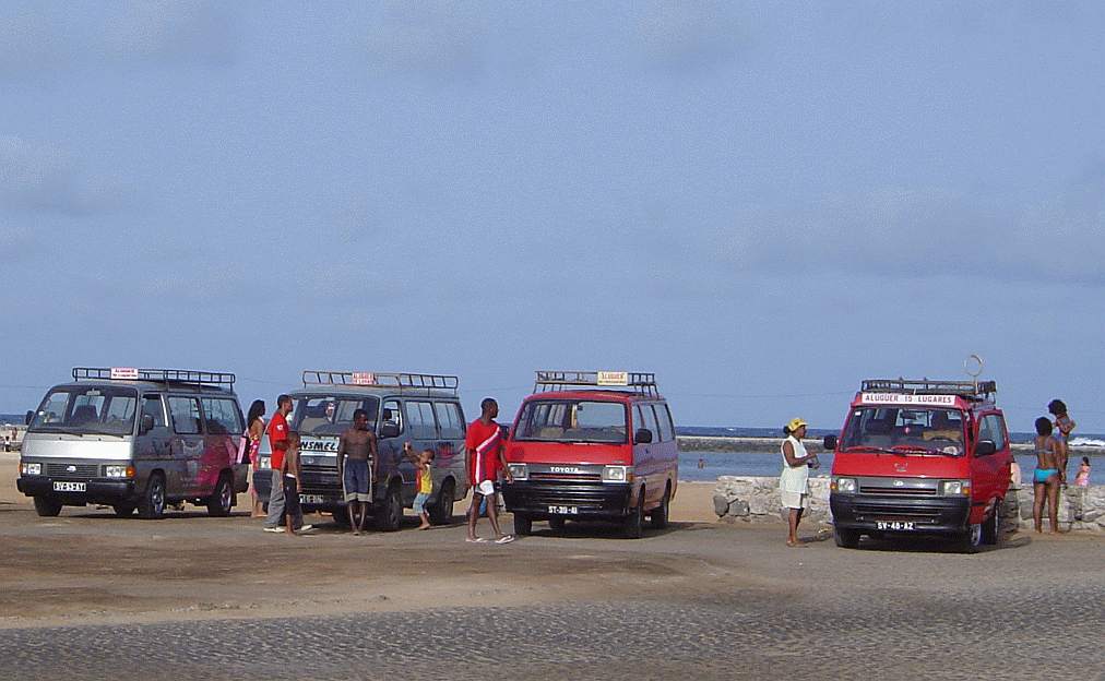 Minibus for public transportation, in Baía das Gatas, São Vicente Island, Cape Verde